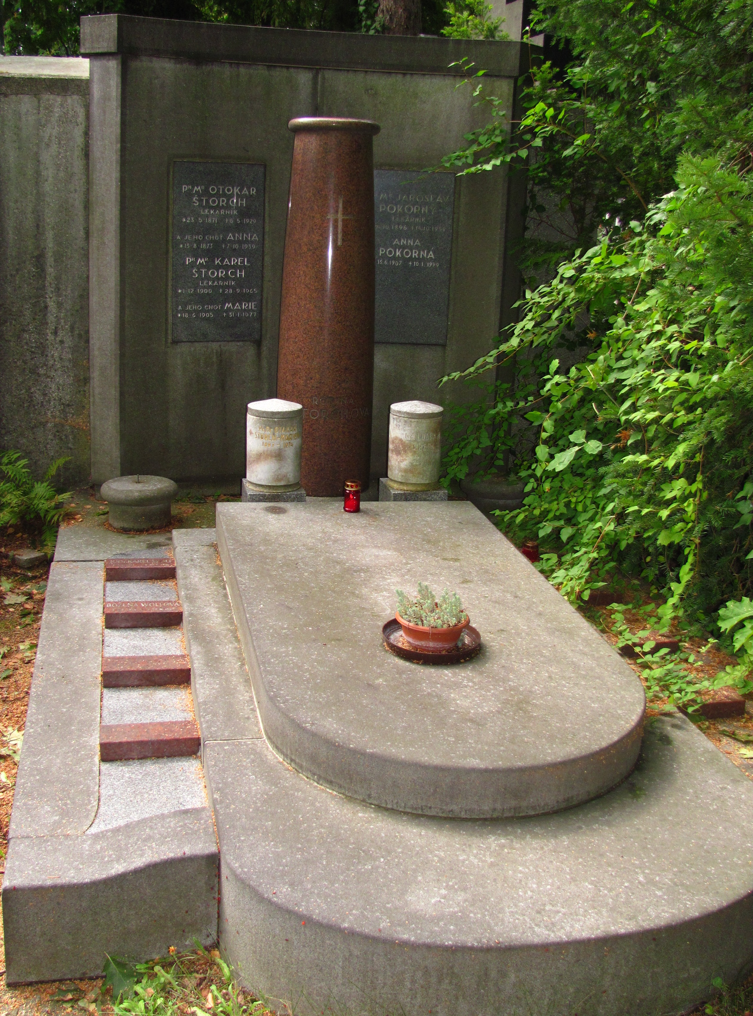 Tomb of Otakar Štorch-Marien, Czech publisher and writer, Kolín Cemetery, Czech Rep.